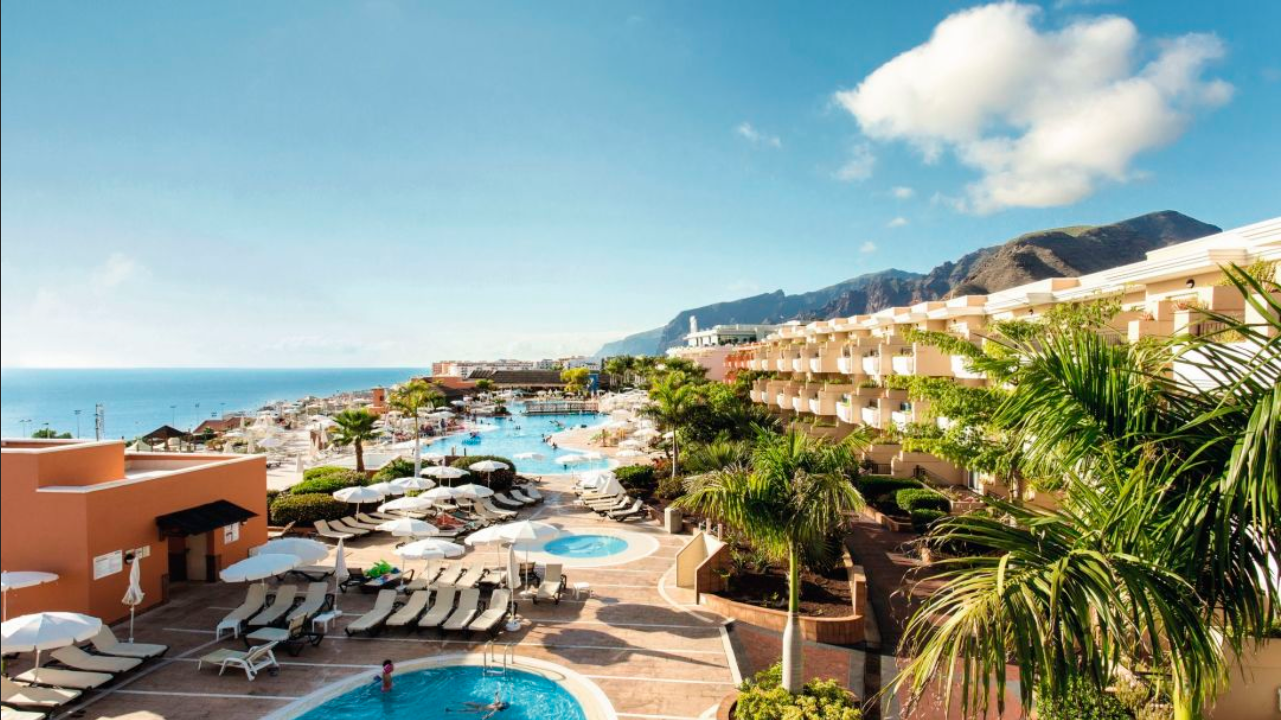 First Choice's Holiday Village in Tenerife on the coast. The hotel is owned by TUI AG.